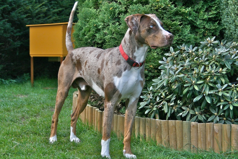 Louisiana Catahoula Leopard Dog - Red Leopard with white